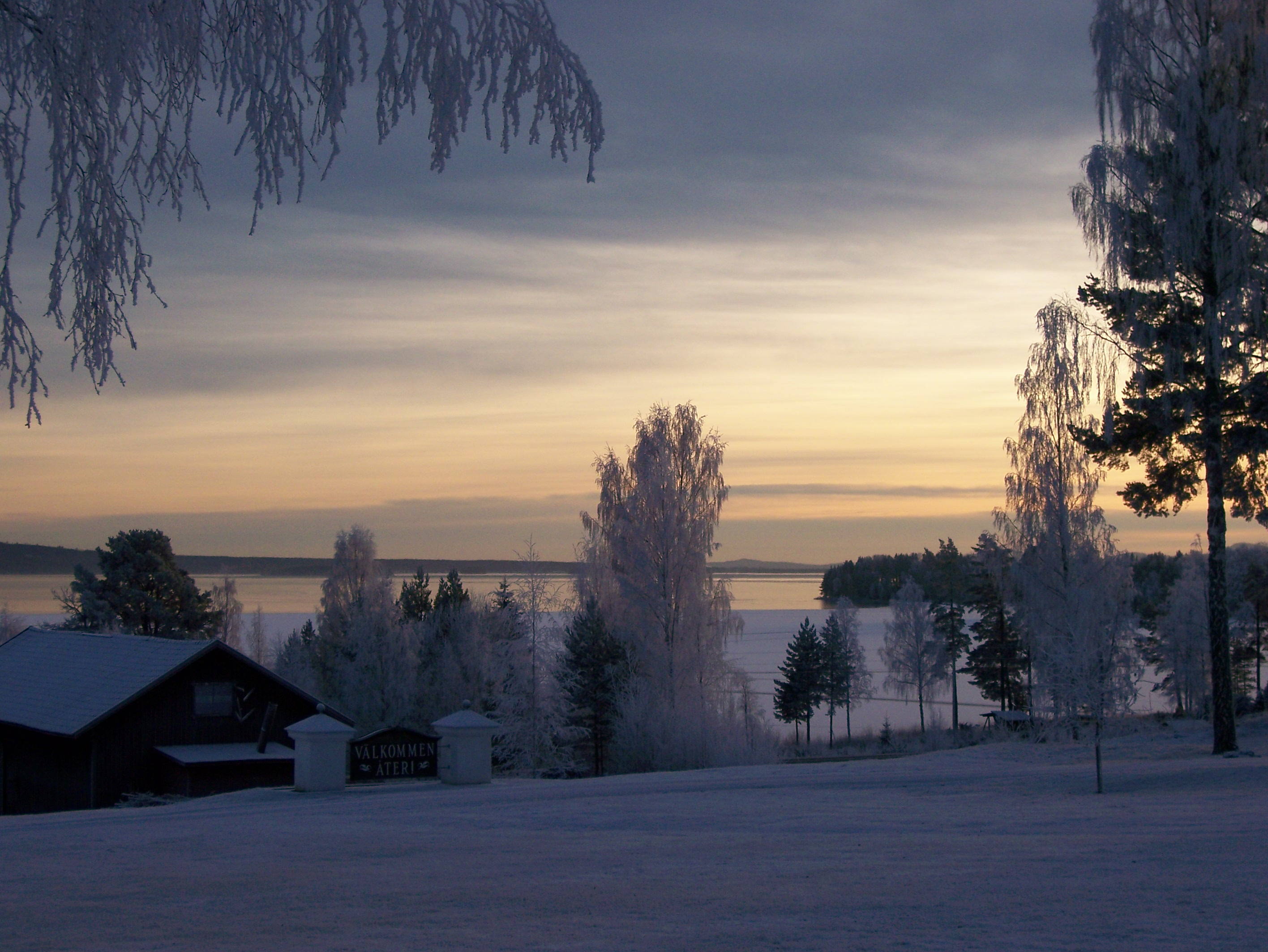 View of sunset over Orsasjön from Bäcka Herrgård.